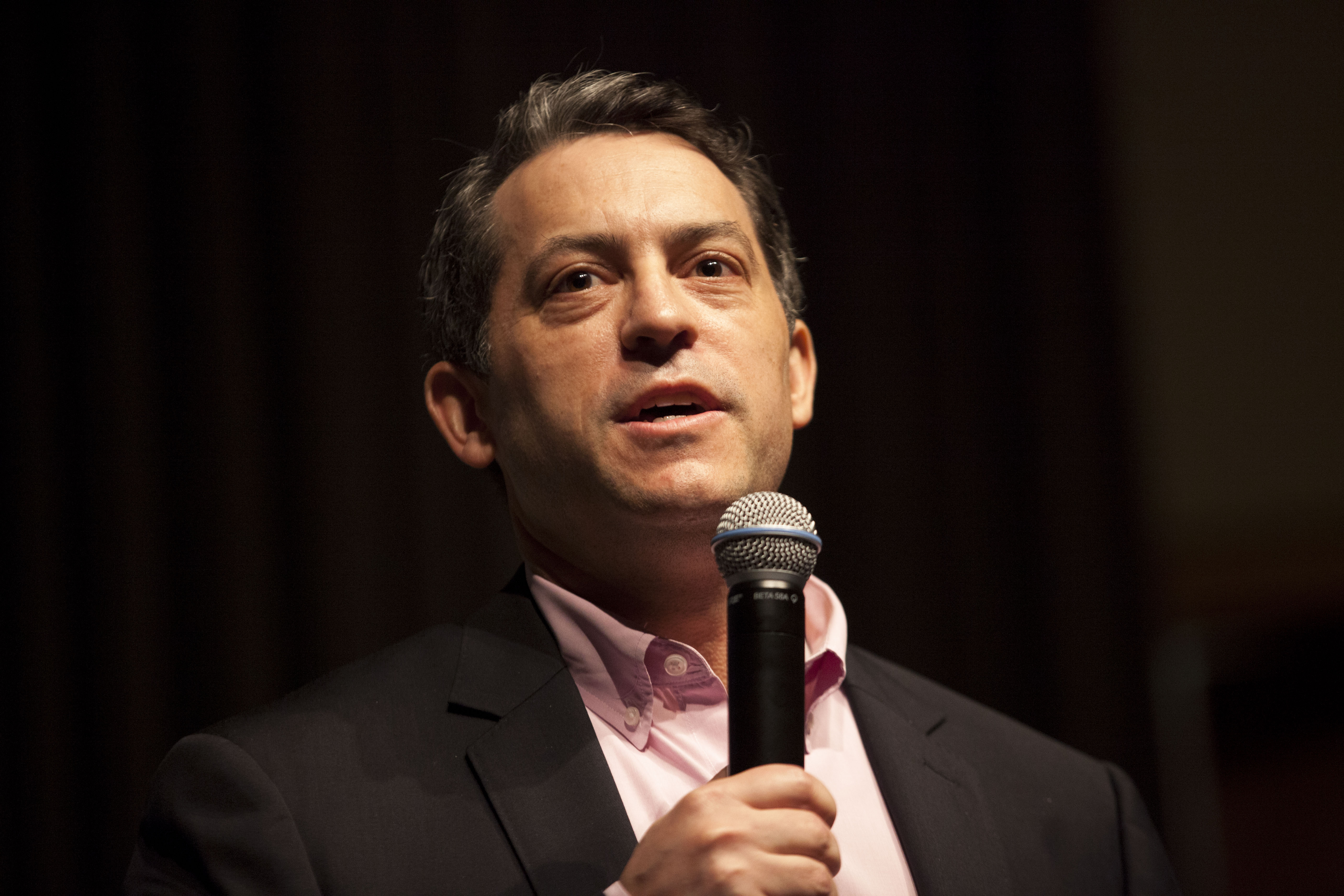 Vox Media chairman and CEO Jim Bankoff speaks at the 2014 ISOJ on the UT-Austin campus, Apr. 4, 2014. Gabriel Cristóver Pérez/Knight Center